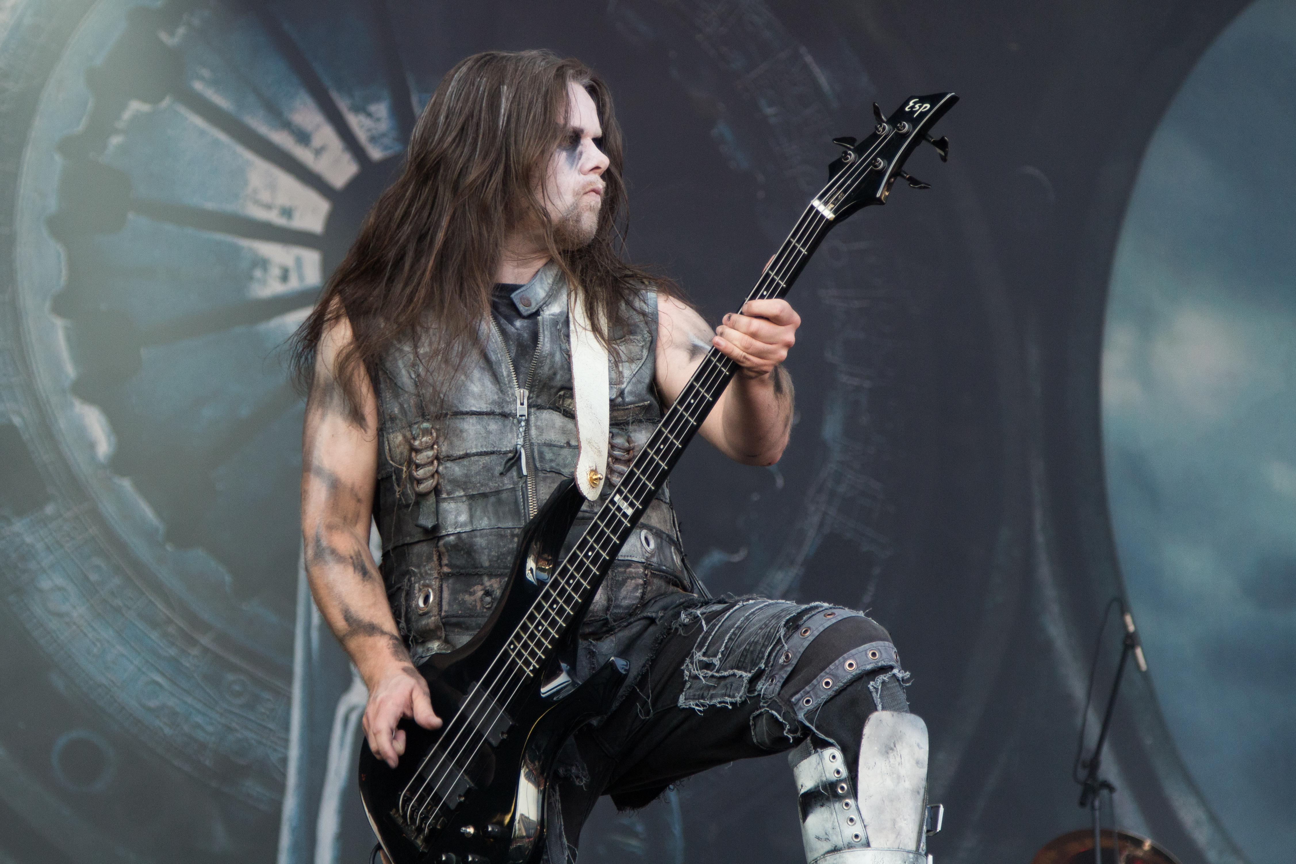 Terje "Cyrus" Andersen from Dimmu Borgir at the See-Rock Fetival 2014